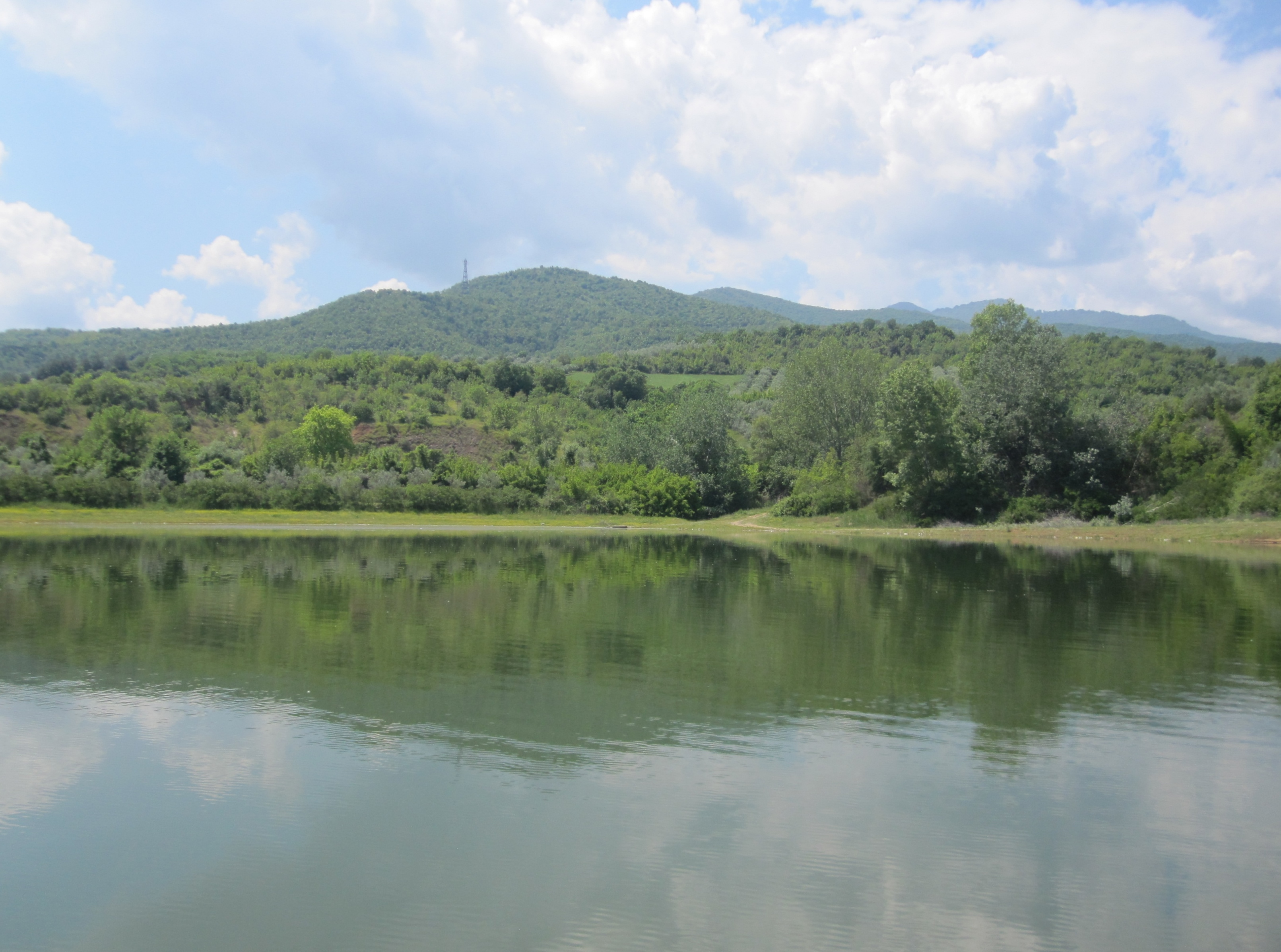 This is a photography of Natura 2000 protected area with ID GR1260001